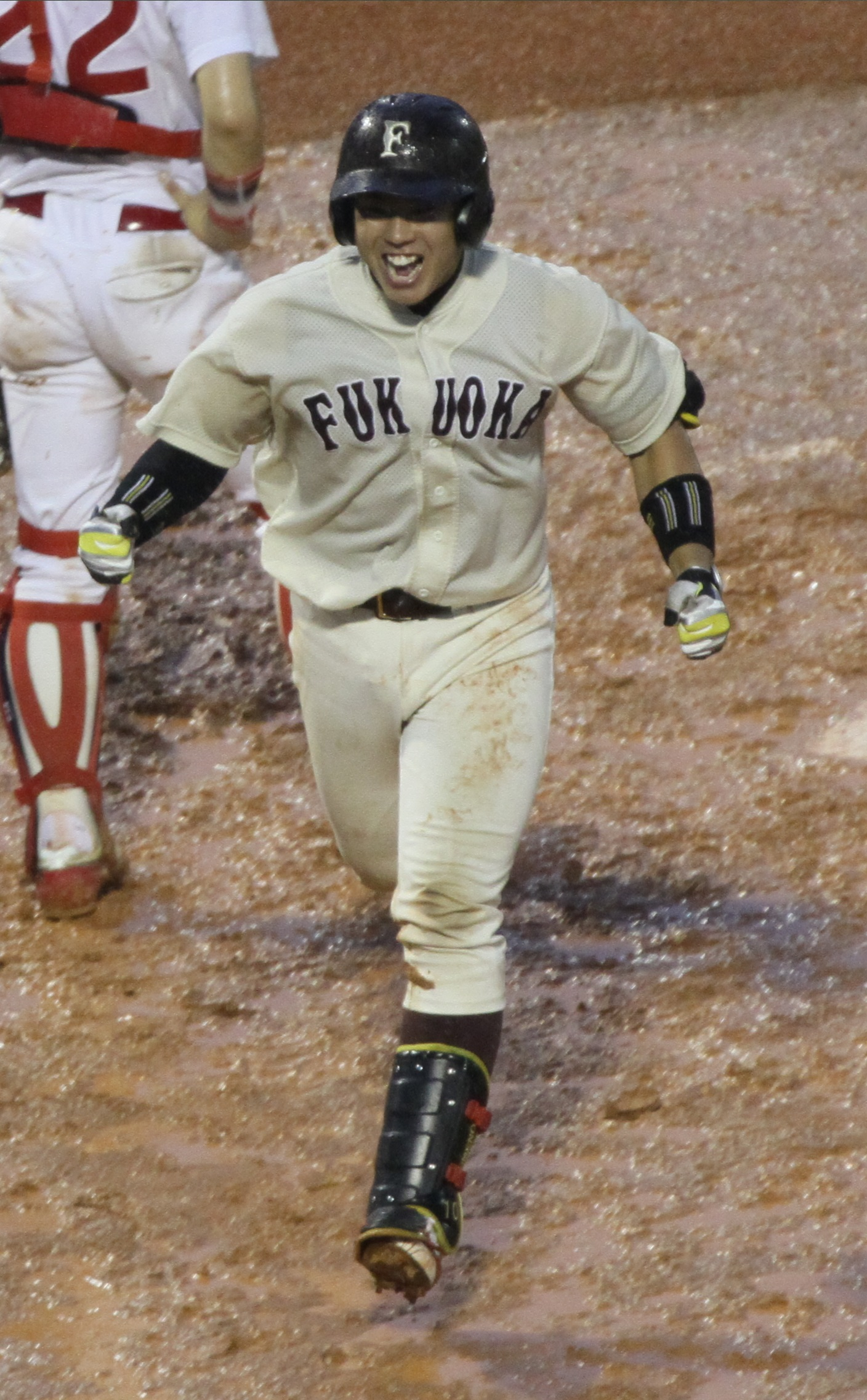 Ryutaro Umeno, catcher of the Fukuoka University Baseball Club, at Hanshin Koshien Stadium.